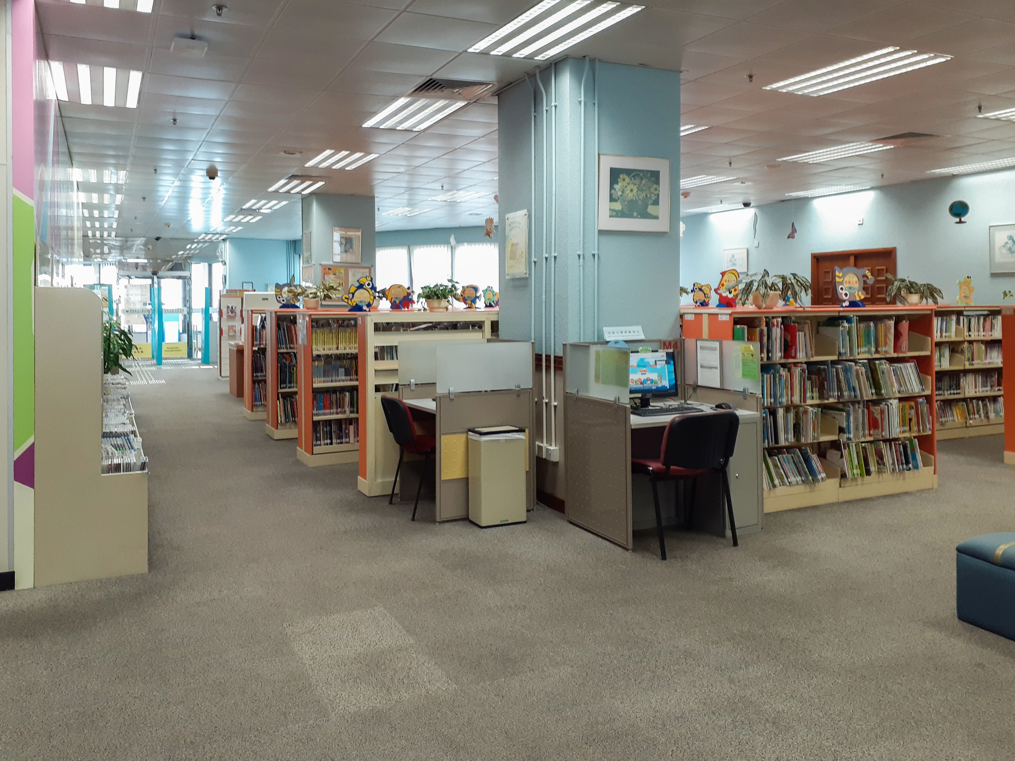 HK HV 跑馬地 Happy Valley 成和道 Shing Woo Road 黃泥涌市政大廈 Wong Nai Chung Municipal Services Building 黃泥涌公共圖書館 Public Library in October 2019